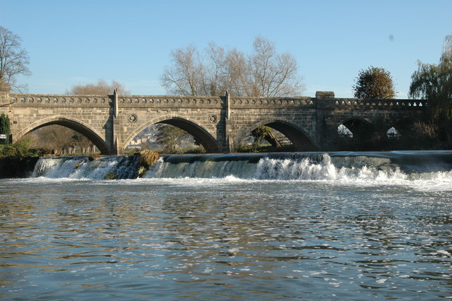 Bathampton weir and tollbridge